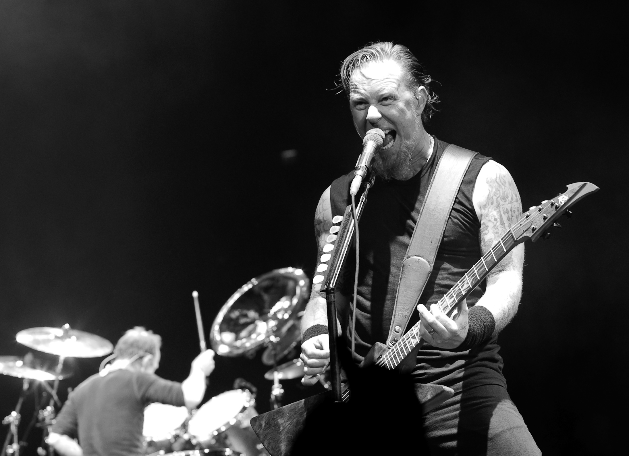 James Hetfield performing live with Metallica at the O2 Arena in London, England on 15 September 2008